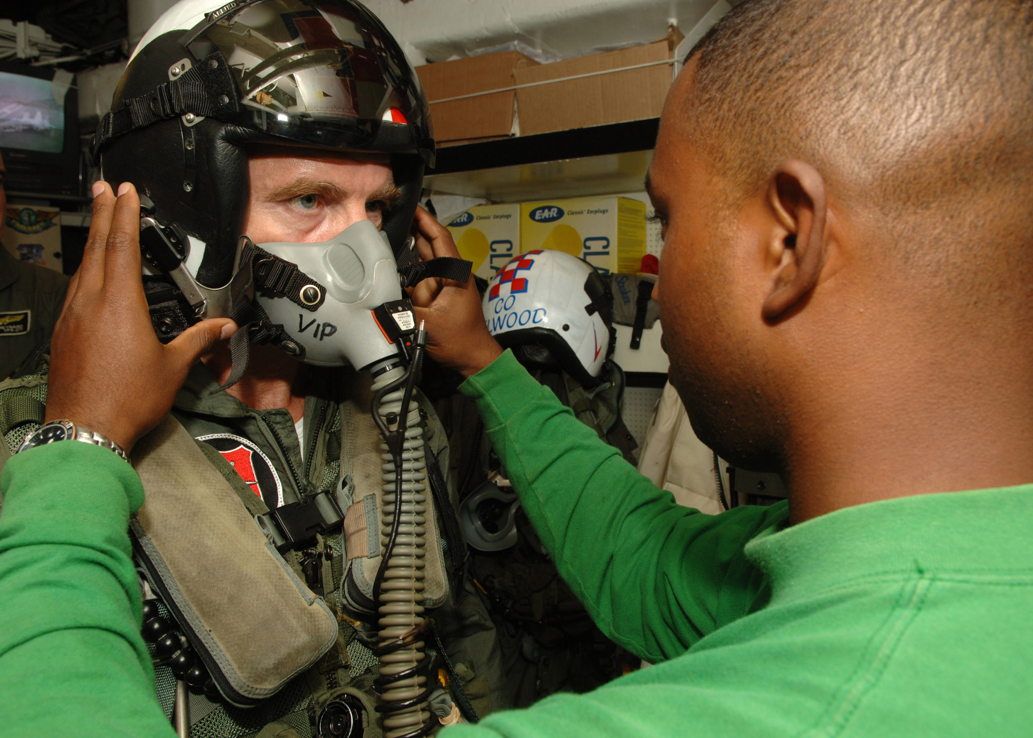 MEDITERRANEAN SEA (July 22, 2007) - Aircrew Survival Equipmentman 1st Class Paul-Brian Raghoo assists British Royal Air Force Air Marshal, Sir G.A. "Dusty" Miller, with his helmet prior to launching from the flight deck of the nuclear-powered aircraft carrier USS Enterprise (CVN 65) in an F/A-18F Super Hornet, attached to the "Checkmates" of Strike Fighter Squadron 211. Enterprise and embarked Carrier Air Wing 1 are currently underway on a scheduled six-month deployment. U.S. Navy photo by Mass Communication Specialist 3rd Class N.C. Kaylor (RELEASED)